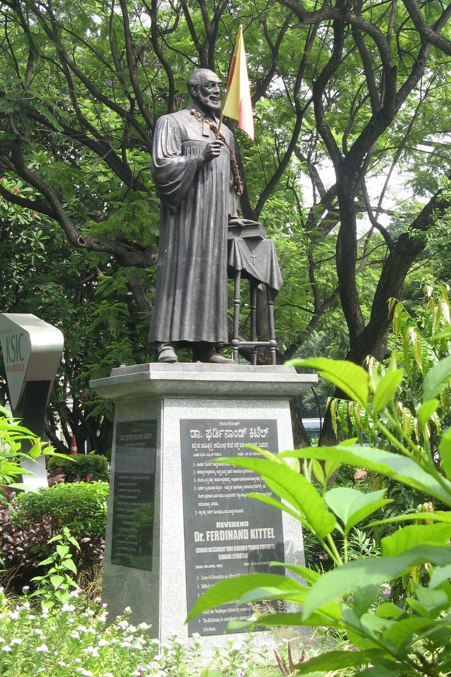 Statue of Reverend Ferdinand Kittel (1832 – 1903).